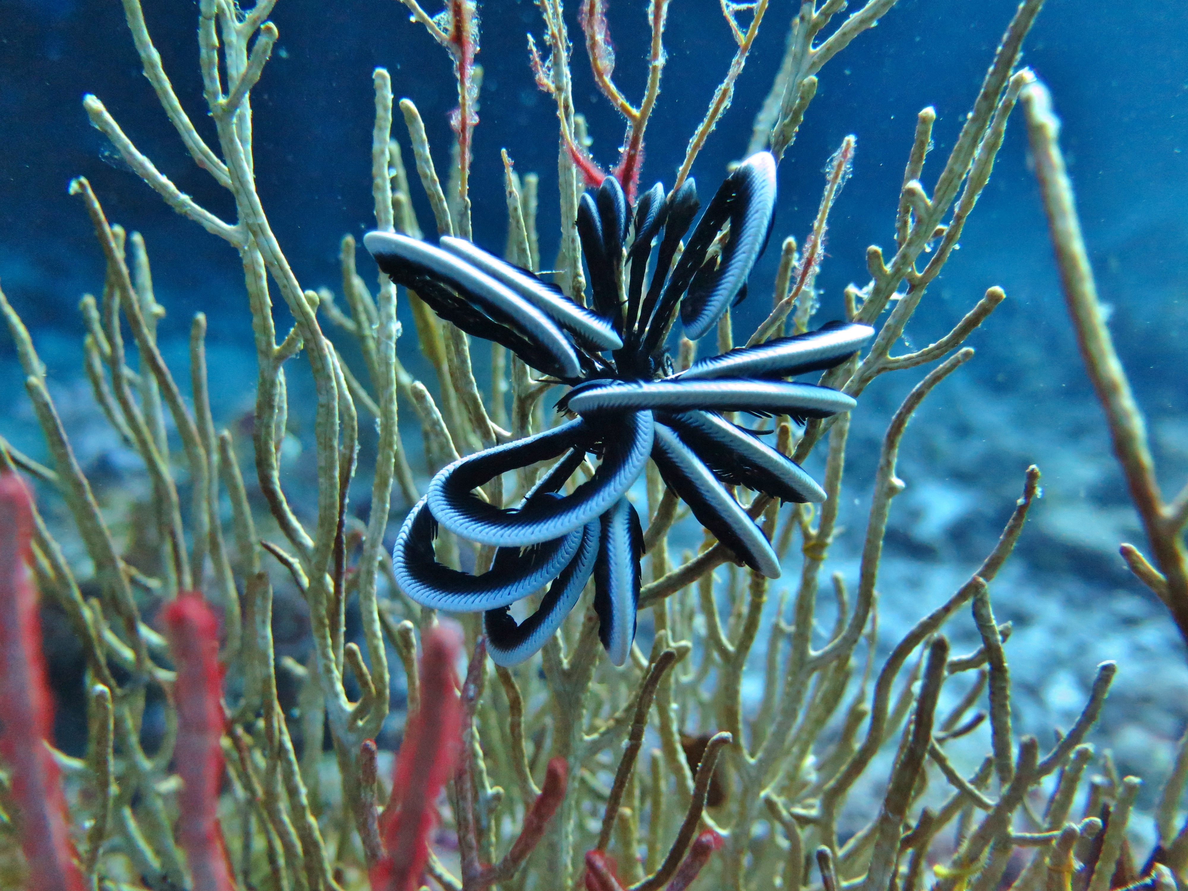 A climbing feather star (Cenometra bella) observed in Maldives (Ari atoll). ID : Charles Messing & Frédéric Ducarme.